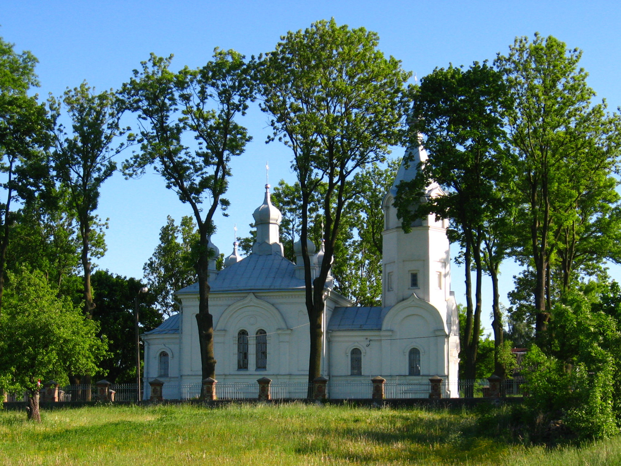 Orthodox church of the Feast of the Cross in Fasty